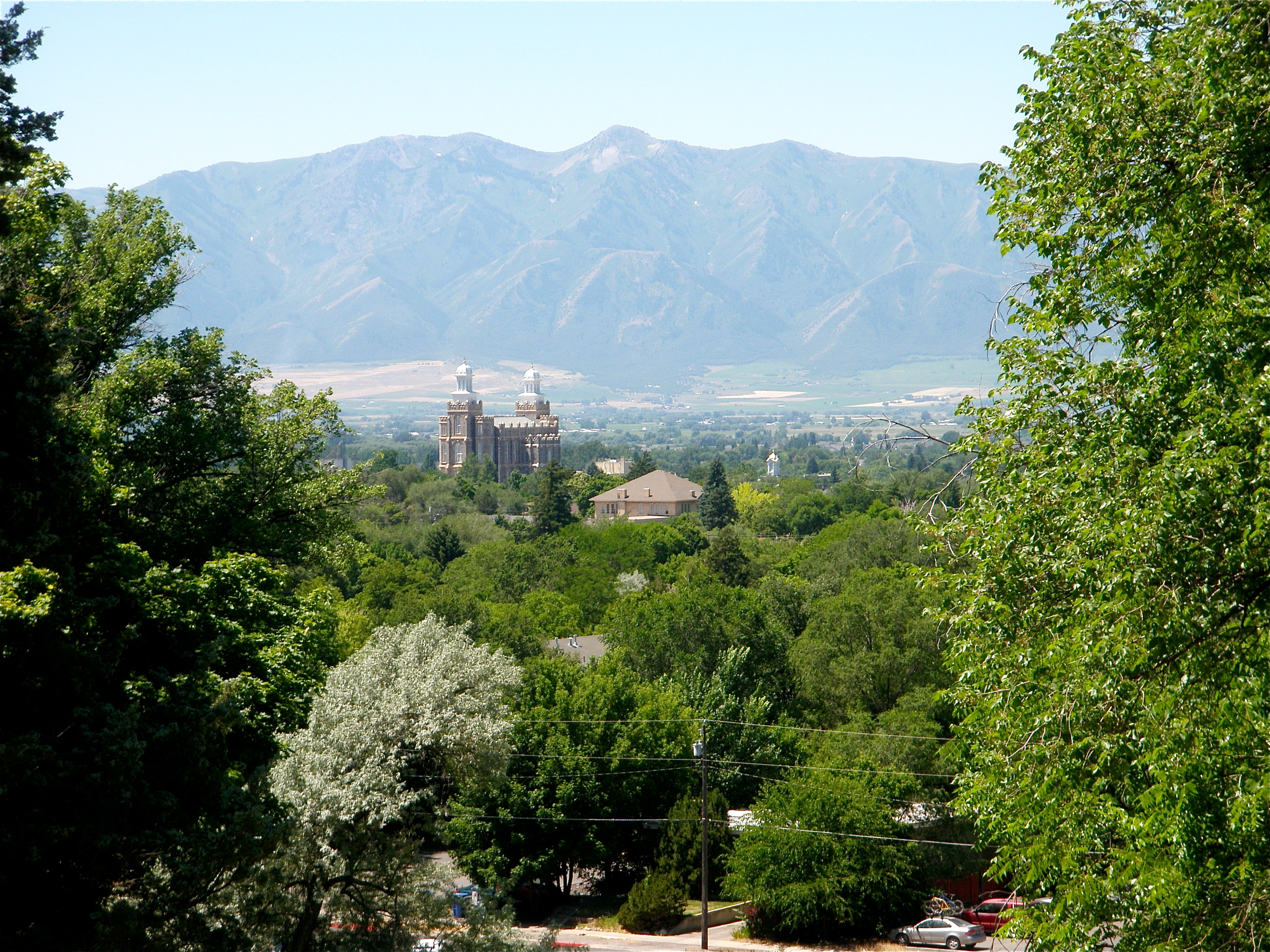 View over Logan, Utah and the LDS Temple from Old Main Hill on the Utah State University Campus